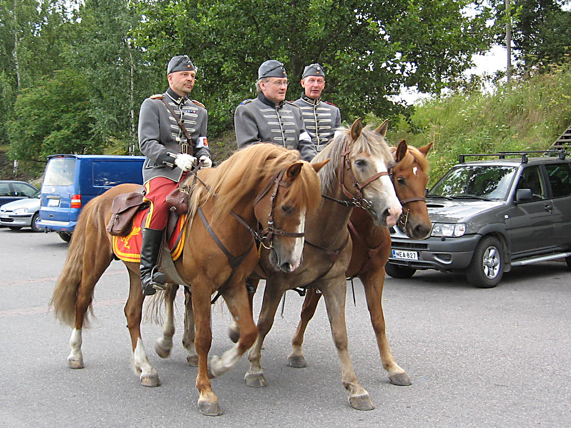 Riders from the Ratsumieskilta (filename is not correct) (Horseman Guild) military history organization during Finland's annual main agricultural show Farmari in Lahti, Finland. Model of uniforms is Finnish Cavalry m/22 (year 1922). Outfit also includes a sword. This outfit is used also by Rakuunakilta (Dragoon Guild}. The uniform is used by one Finnish Defence Force unit: the Rakuunasoittokunta (Dragoon Military Band)